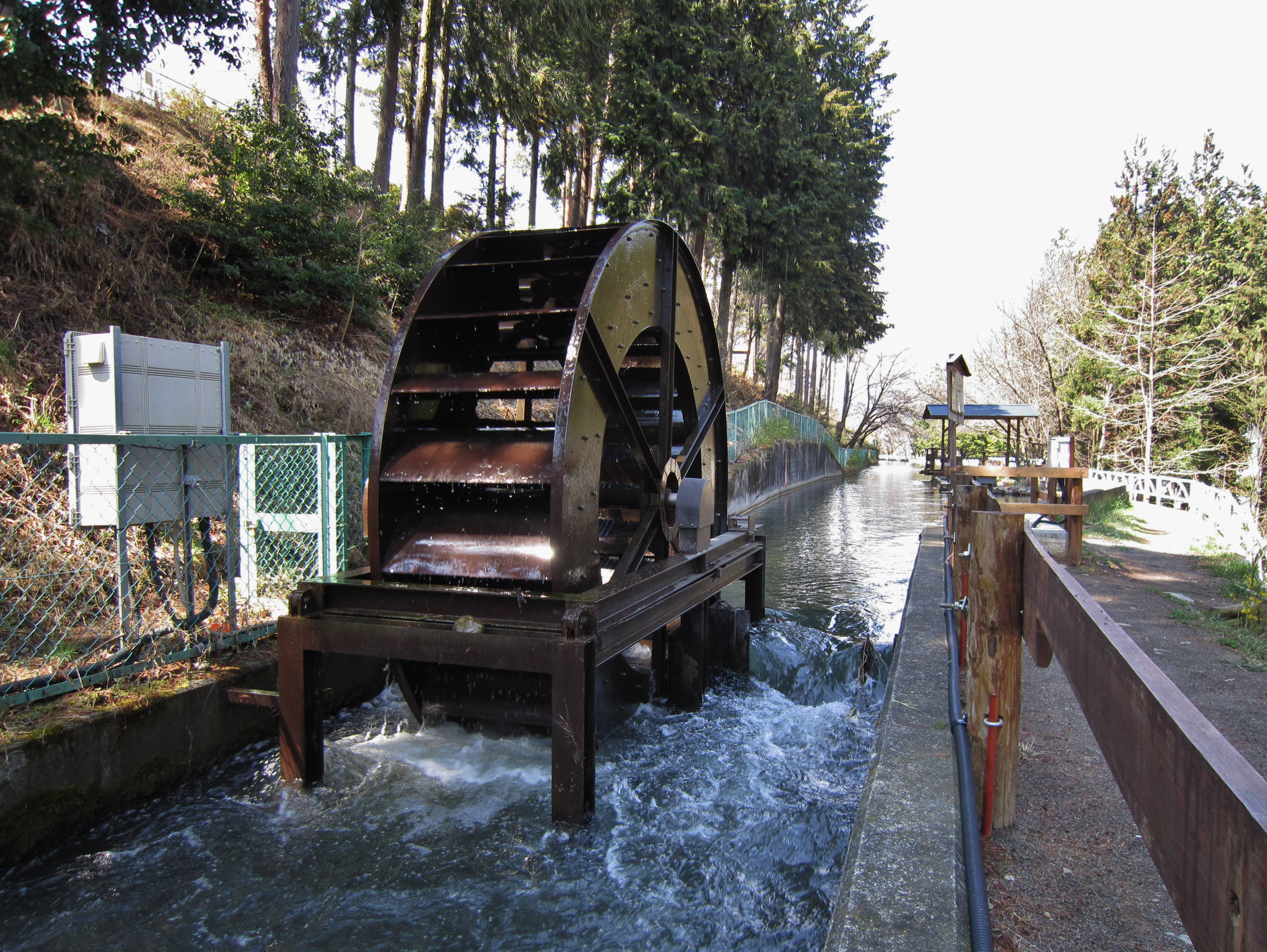 Hata watermill.